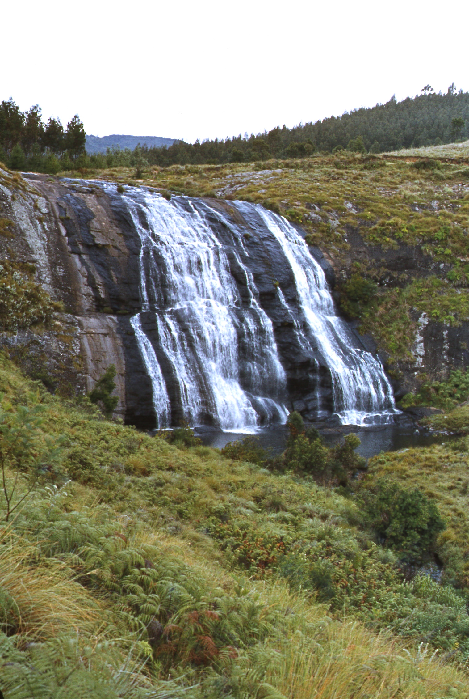 Waterfall at the Second Troutstream Palani hills.